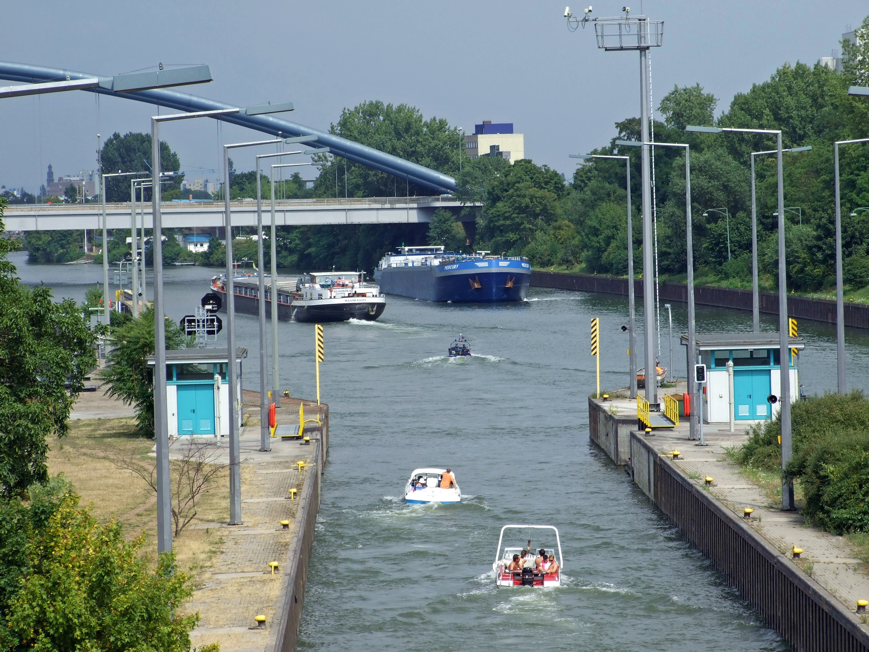 Ship traffic on top side of sluice, Offenbacher Schleuse, Offenbach am Main